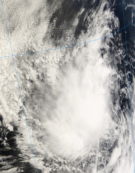 Tropical Storm Marie when she was upgraded to a tropical storm. When she was upgraded to a tropical storm, she had winds of 50 miles per hour.